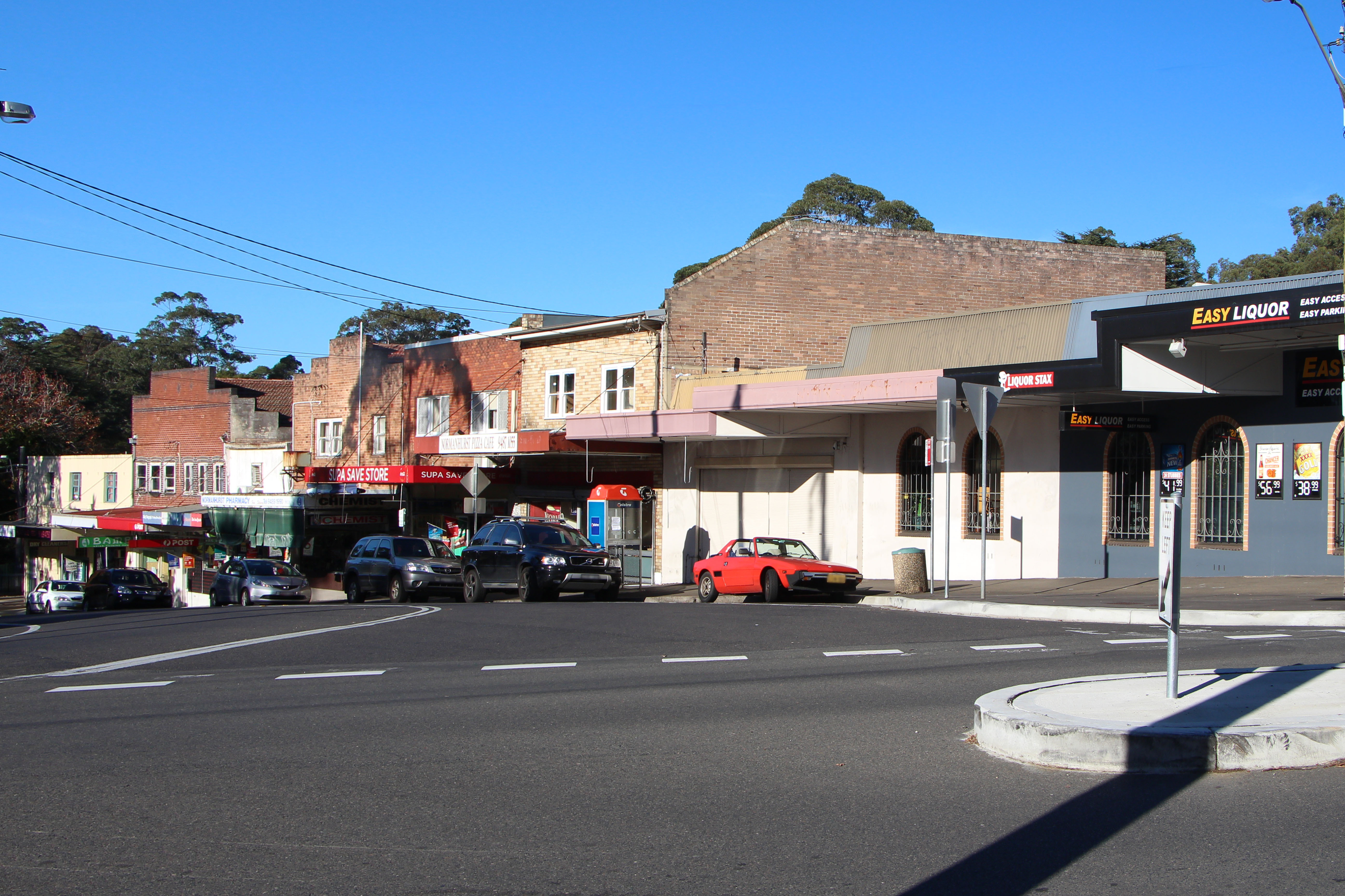 Strip of shops at Normanhurst railway station, New South Wales, Australia.